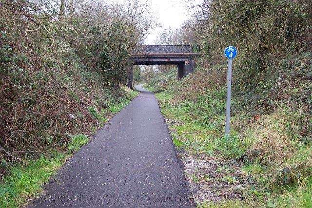 Dudbridge Cycle Track. The railway line ran between Dudbridge and Stroud and is viewed from the Dudbridge End. Nowadays it's the best made bit of cycle track in Stroud, it's a pity the access is by a flight of stairs. The road bridge carries traffic between Dudbridge Hill and Dudbridge.